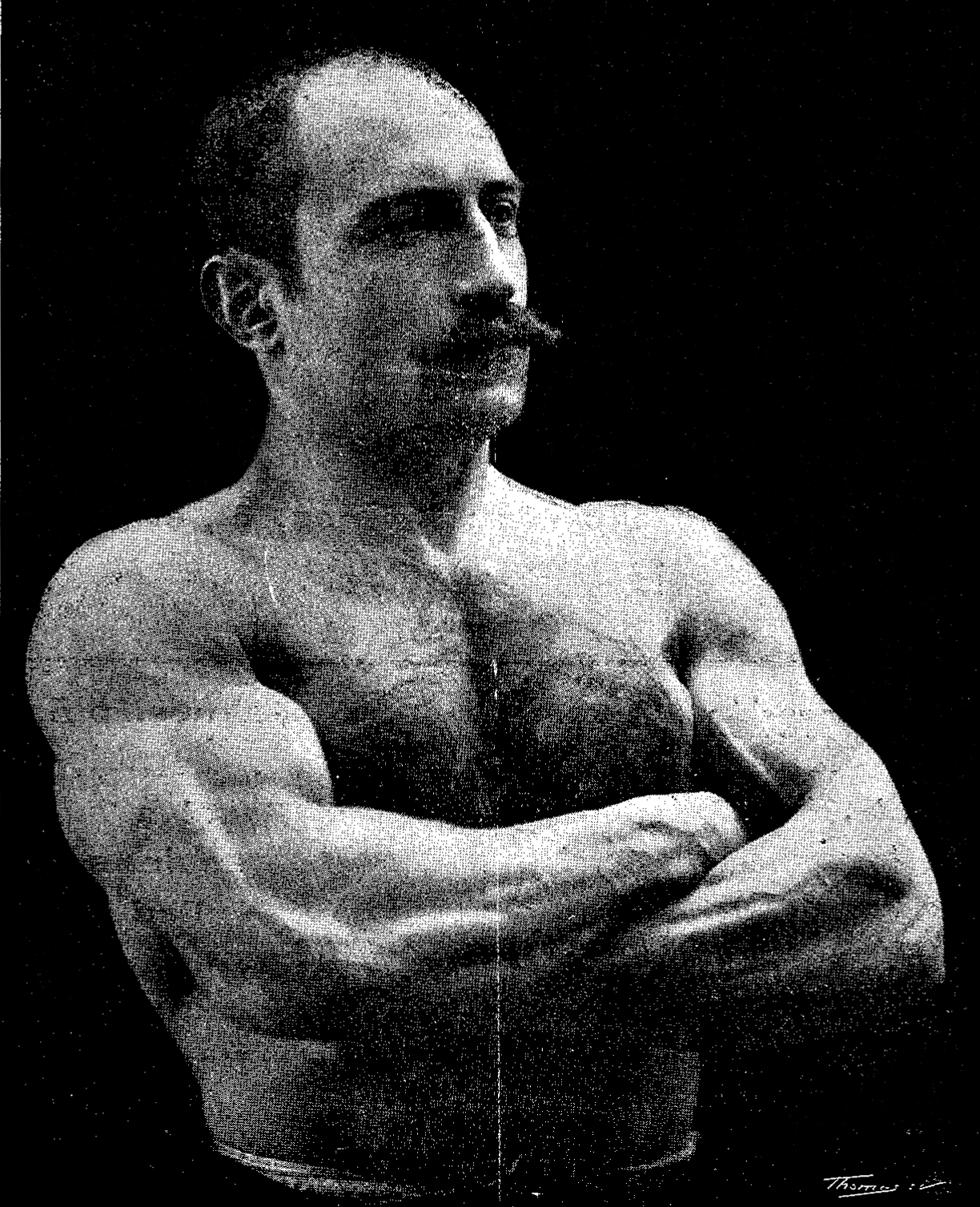 Miquel Valdés Padró, catalan sportsman and FC Barcelona's pioner(1899-1902).